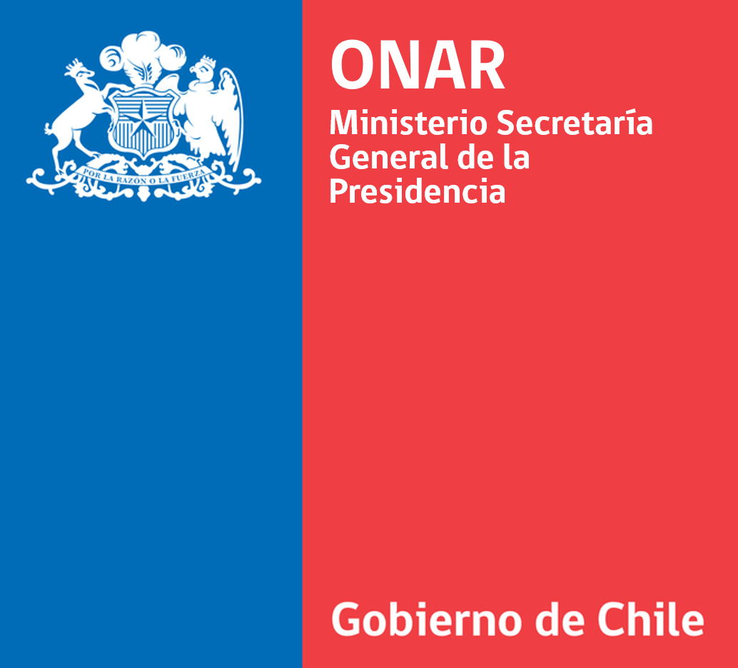 Institutional logo of the National Bureau of Religious Affairs.